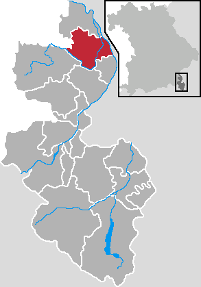 Locator maps of municipalities in Bavaria - District Berchtesgadener Land